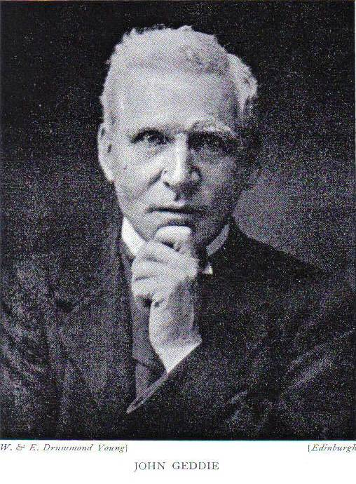 This photograph of John Geddie is taken from his book:Thomas the Rymour and his Rhymes, Edinburgh: Printed for the Rymour Club and issued from John Knox's House, 1920, in which it appears on the frontispiece. The book is in the public domain and is long out of print. The photograph is to be inserted in John Geddie's Wikipedia biography.